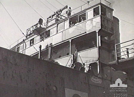 MV Kōei Maru : Japanese cargo ship launched in 1933, completed in 1934. 6774grt. Used as an Auxiliary Mine Layer by IJN in WW2. She arrived at Melbourne for the purpose of repatriating interned POW and civilians.